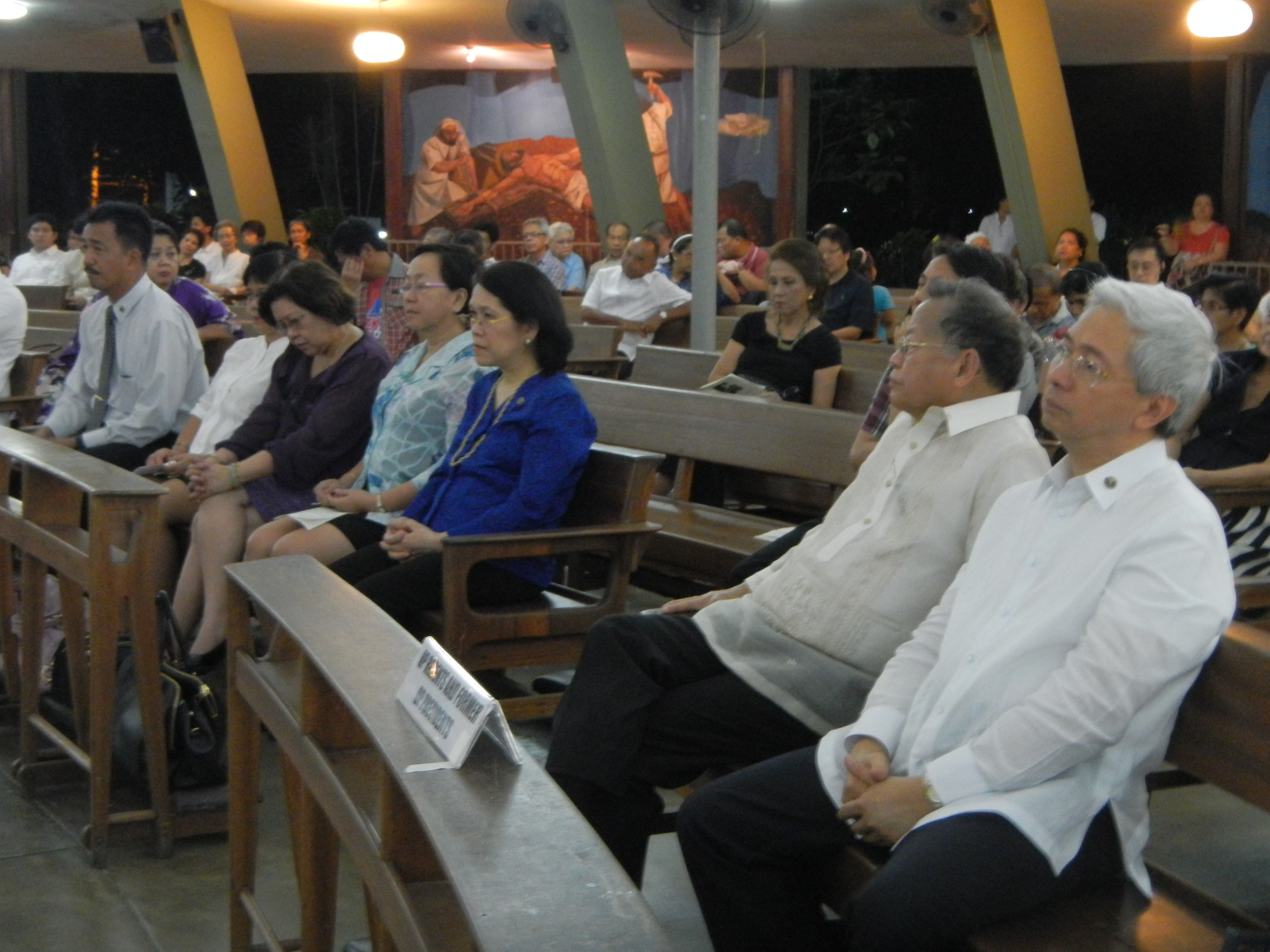 Reynato Puno[1]Reynato Puno y Serrano (born May 17, 1940) was the 22nd Chief Justice of the Supreme Court of the Philippines. Appointed on December 8, 2006 by President Gloria Macapagal-Arroyo, he was the 22nd person to serve as Chief Justice. Puno had initially been appointed to the Supreme Court as an Associate Justice on June 28, 1993. [2]Ex-Chief Justice Puno gets 2nd term as UP regent October 10th, 2012 President Benigno Aquino has reappointed former Chief Justice Reynato Puno as a member of the University of the Philippines Board of Regents. Puno, 72, was previously appointed for a term of two years, or from November 2010 to present. Puno will serve for another two years, or until Sept. 30, 2014, said the appointment paper signed by Executive Secretary Paquito Ochoa on Oct. 1. and - UP President Alfredo E. Pascual [3]is the 20th President of the University of the Philippines. He was a member of the Board of Regents, the University's highest policy-making body, representing the alumni with the position of Alumni Regent. Pascual is the first non-faculty member to hold the University of the Philippines presidency. He is also the convenor of the Automated Election System (AES) Watch, an independent, multi-sector coalition that monitored and assessed the Philippines’ first ever nationwide poll automation in May 2010. - at the Onofre Corpuz[4][5] UP necrological service (Eulogy[6])of April 1, 2013 at the Parish of the Holy Sacrifice[7], UP Diliman.